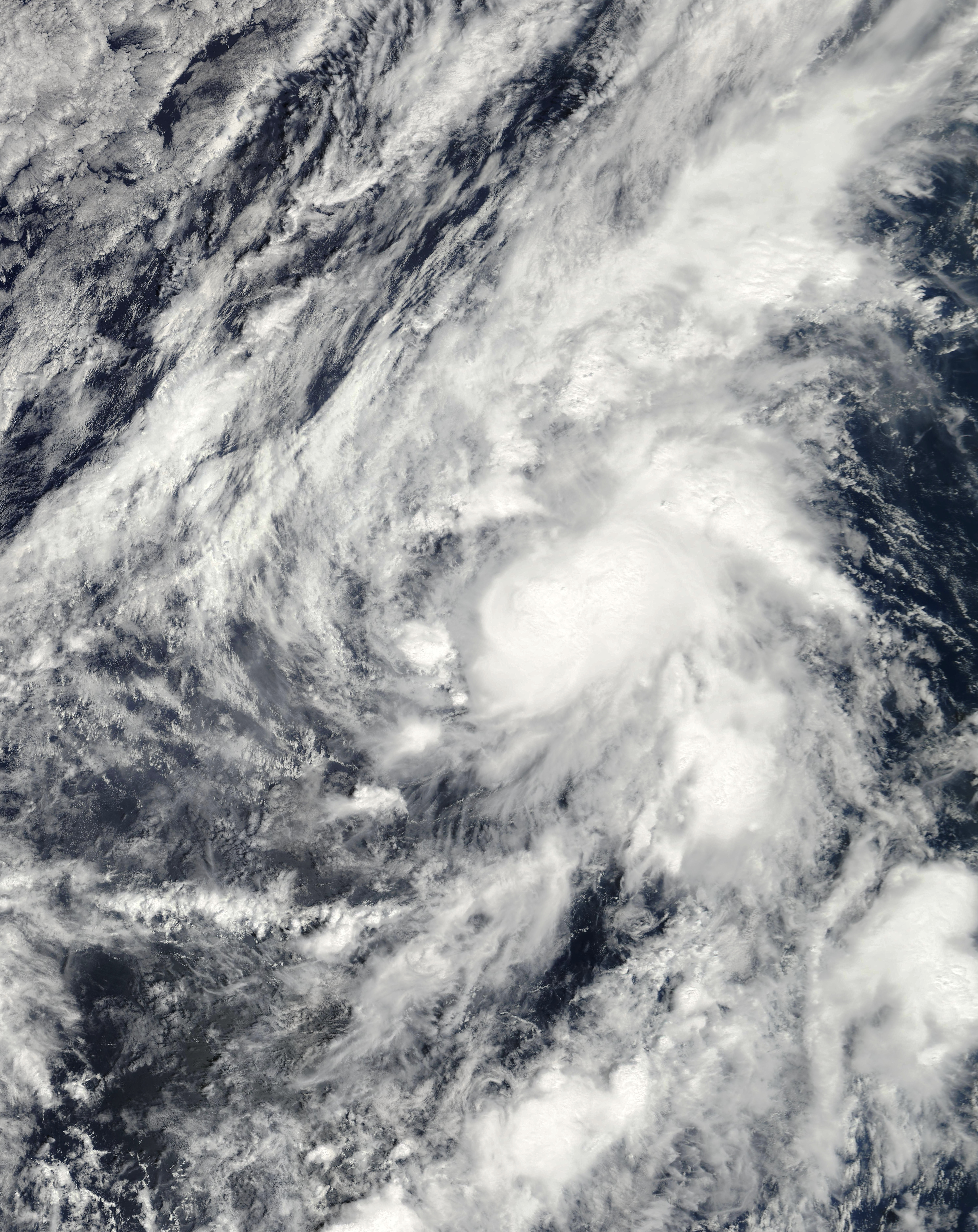 This image of Tropical Storm Norman was captured by the MODIS instrument on NASA's Terra satellite at 1849 UTC on October 9, 2006 when it was located in the eastern Pacific Ocean. At the time, maximum sustained winds were 45 mph and the minimum pressure was approximately 1002 mb.